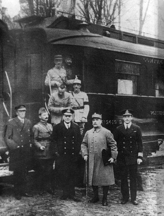 This photograph of the Compiègne Wagon was taken in the forest of Compiègne after reaching an agreement for the armistice that ended World War I. This railcar was given to Ferdinand Foch for military use by the manufacturer, Compagnie Internationale des Wagons-Lits. Foch is second from the right. Lower row, left to right: Admiral George Hope, General Maxime Weygand, Admiral Rosslyn Wemyss, General Ferdinand Foch, Captain Jack Marriott. Middle row: General Pierre Desticker (left), Captain de Mierry (right). Top row: Commandant Riedinger (left), Officer-Interpreter Laperche (right).